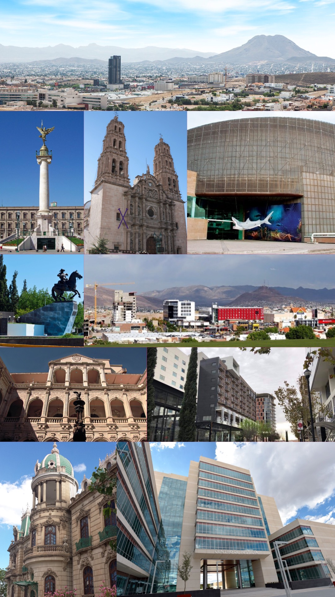 A collage featuring the City of Chihuaha's many landmarks and cityscape.